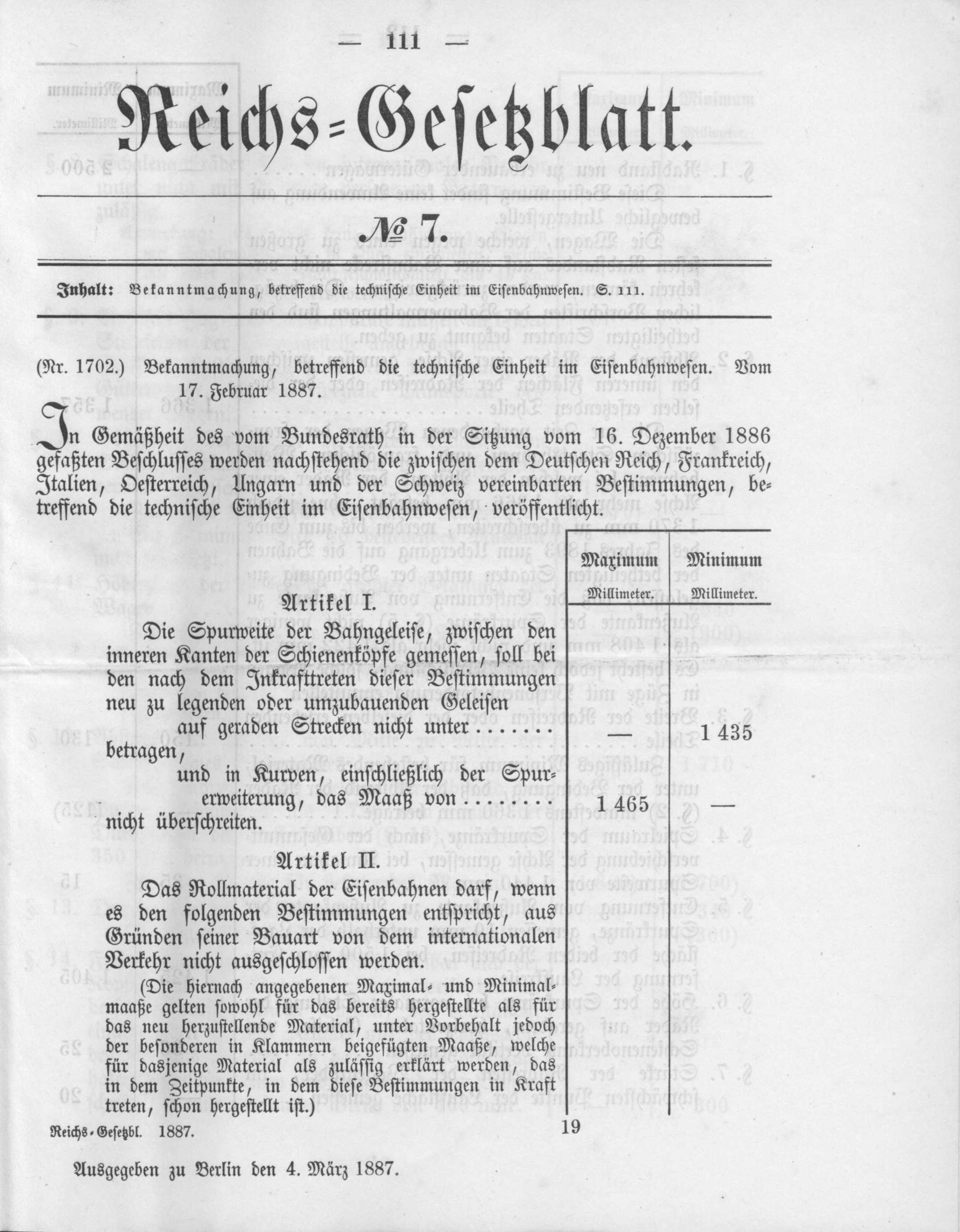 Scan from the Imperial Law Gazette of Germany, 1887